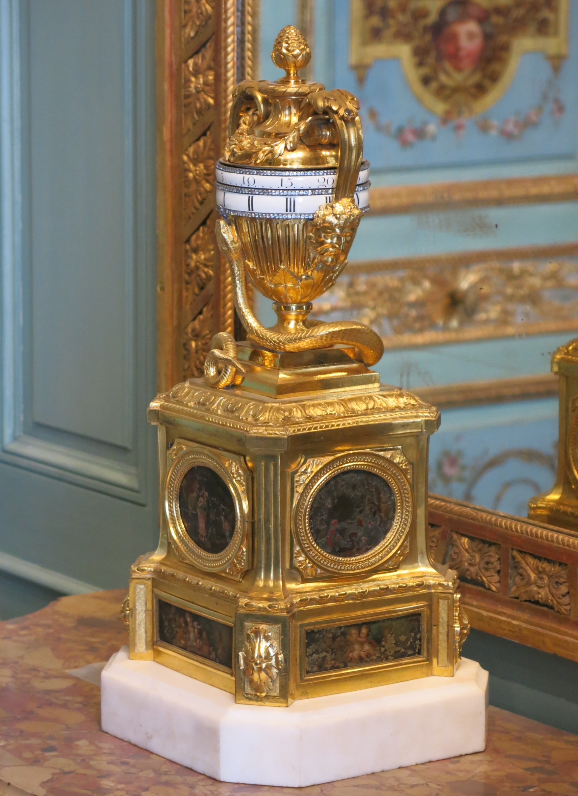 Clock with rotating dial. Louvre museum (Paris, France). Paris 1775-1780. Gift of René Grog, 1973.